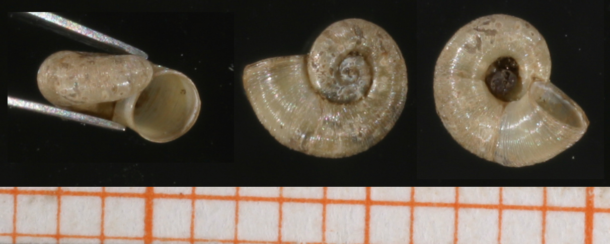 Photo of shells of Valvata sibirica. Scale in mm. Locality: north Russia: Tajmyr, 20 km S Khatanga. Date: 03-09-1994.